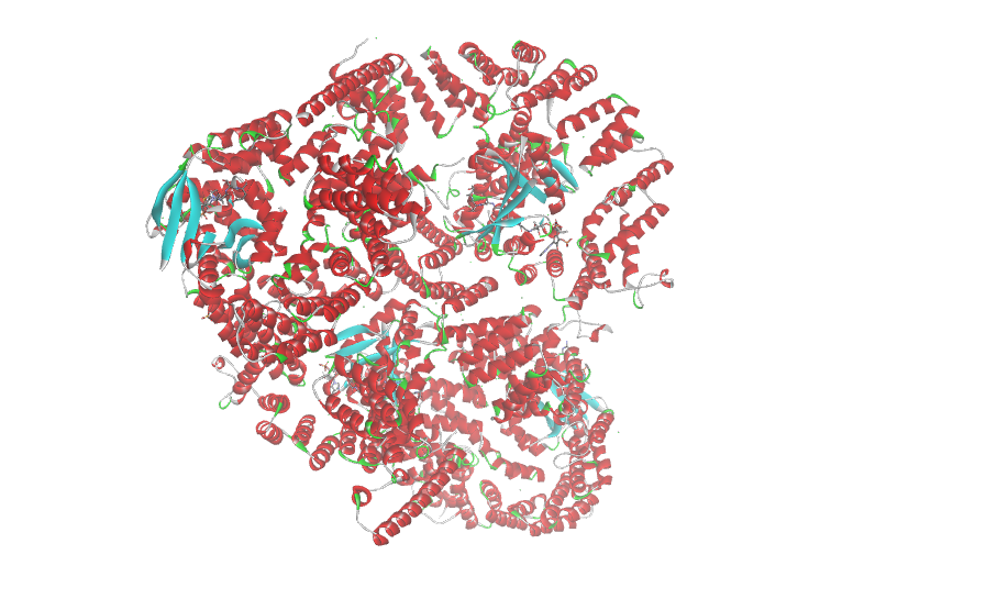 Protein Acetylation Figure3